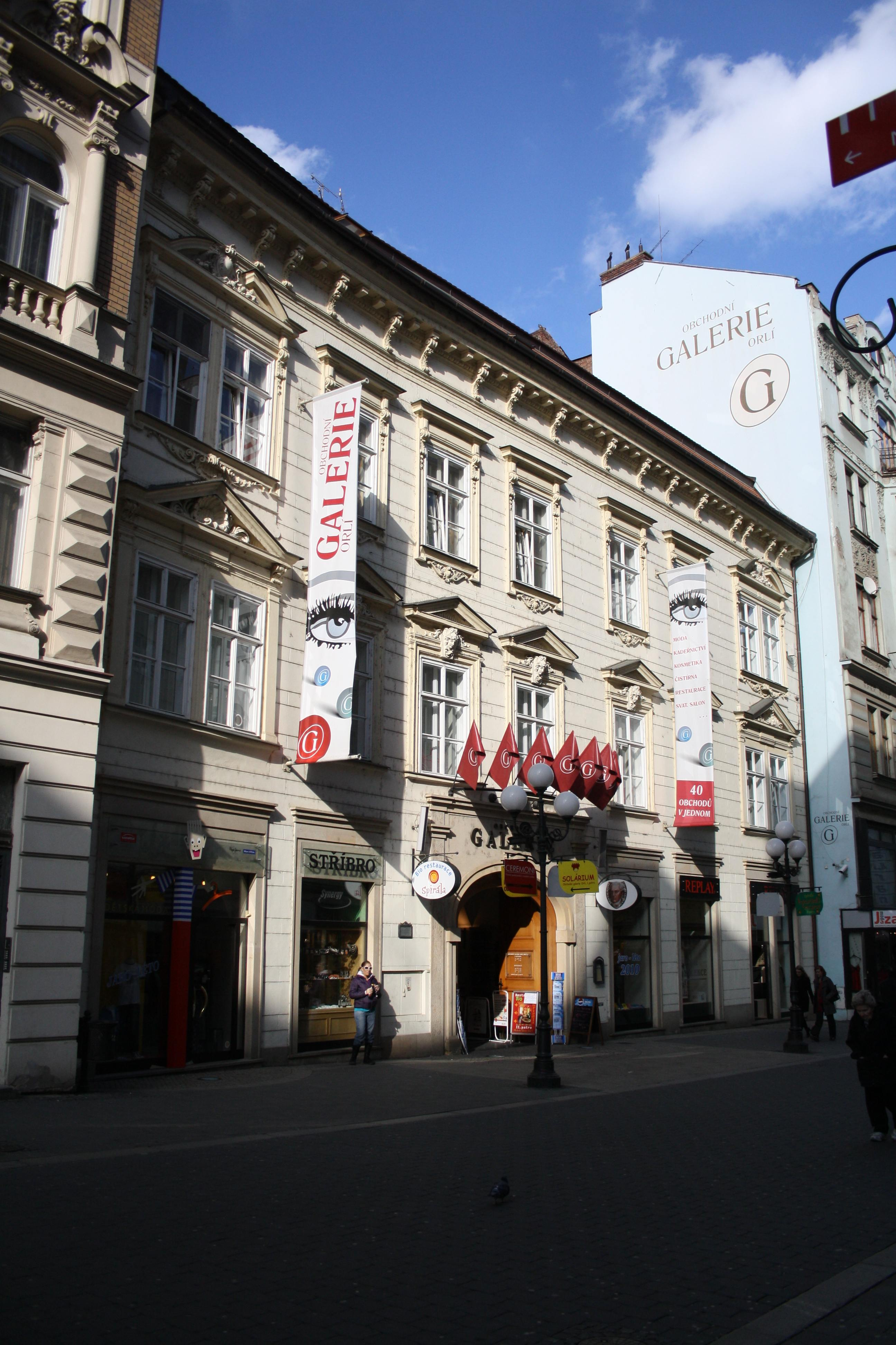 Shopping centre Orlí at Orlí street, Brno-Center.